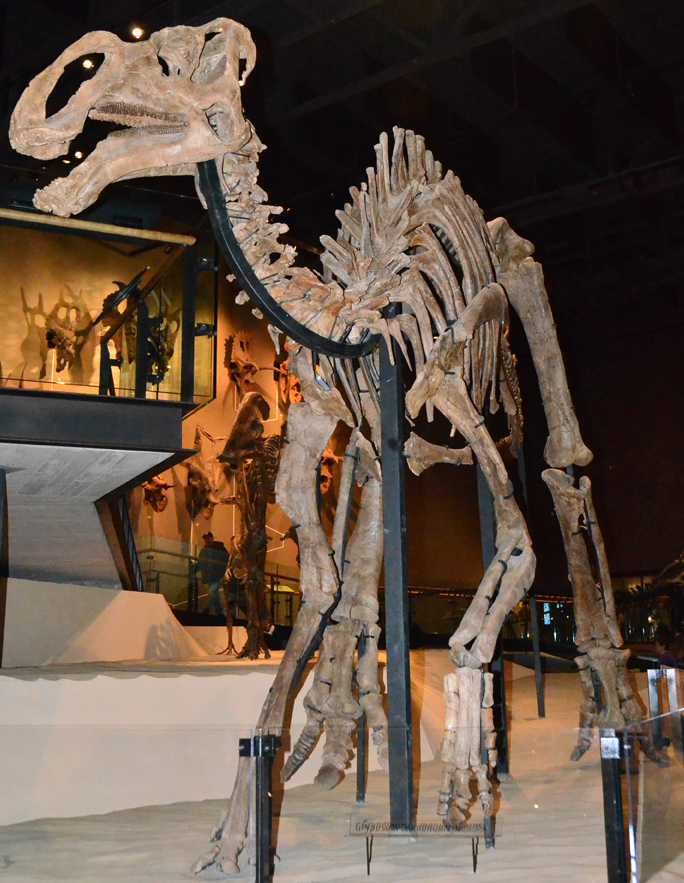 Gryposaurus monumentensis Utah Museum of Natural History